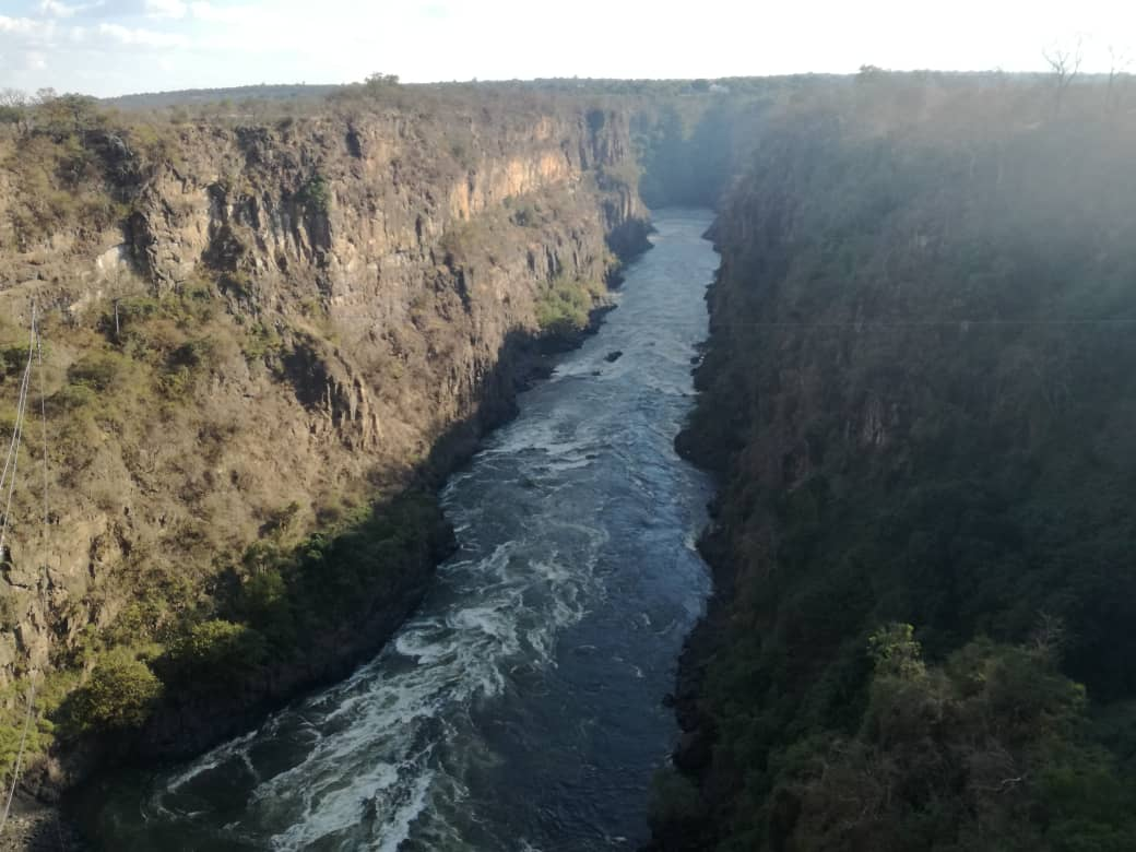 The beauty of Africa in one picture This is an image with the theme "Play" from: Zimbabwe